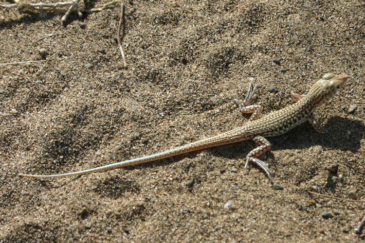 juvenile Acanthodactylus blanfordii at Iranshahr, Sistan & Baluchestan, Iran